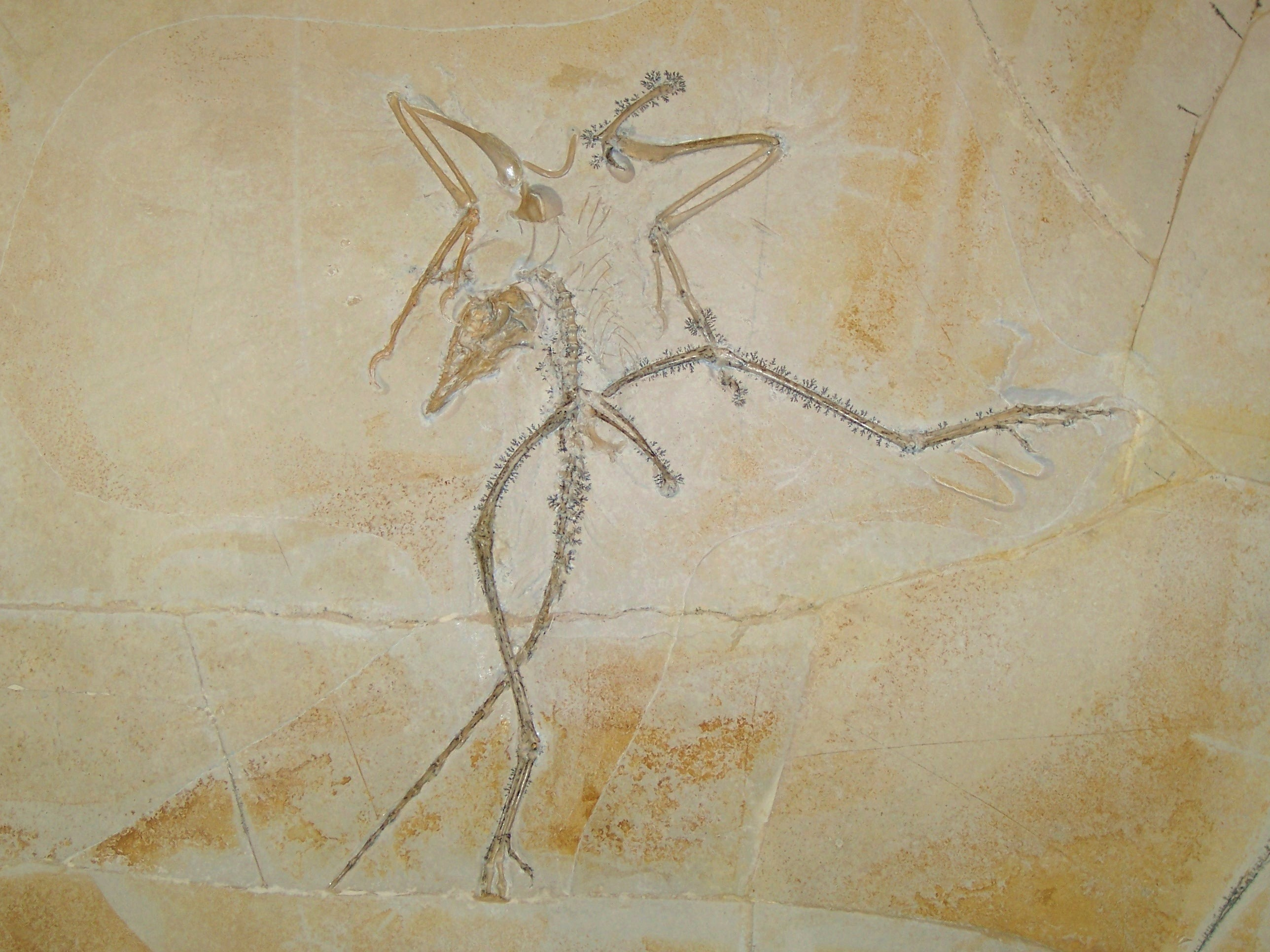 "Thermopolis Specimen" of Archaeopteryx lithographica. Original caption: "Image of a fossil Archaeopteryx Lithographica, taken on 2007-05-18 in the Staatliches Museum für Naturkunde in Karlsruhe, Germany. This is claimed to be the well-preserved Thermopolis Specimen."